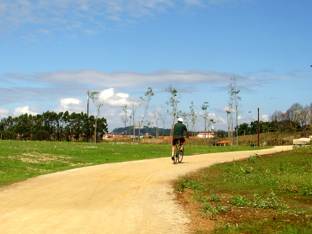 Póvoa de Varzim City Park